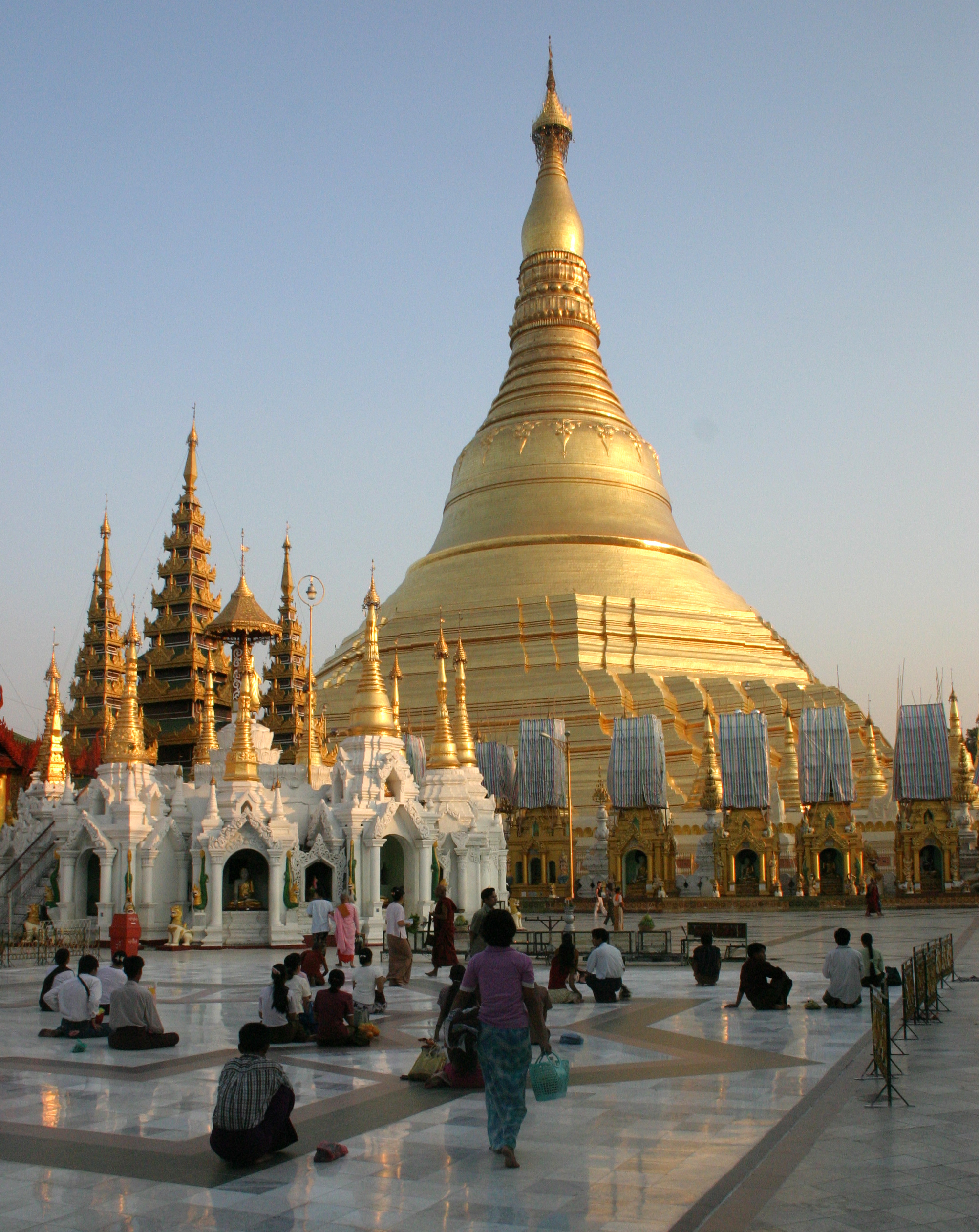 Shwedagon pagoda in Yangon in Myanmar.